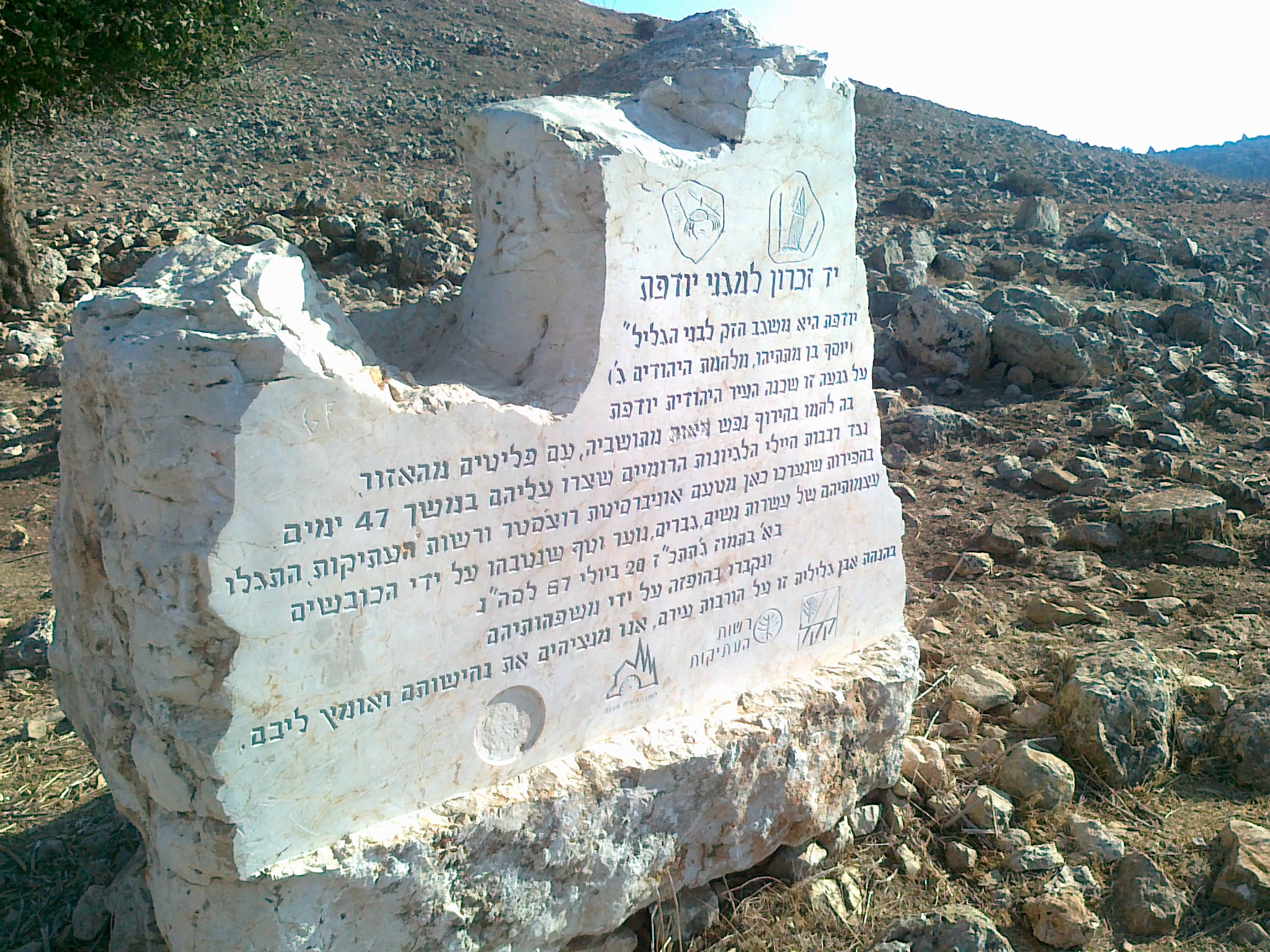 Yodfat memory stone for the protectors of Yodfat (Israel), which fell on 20 July 67 to Roman forces.